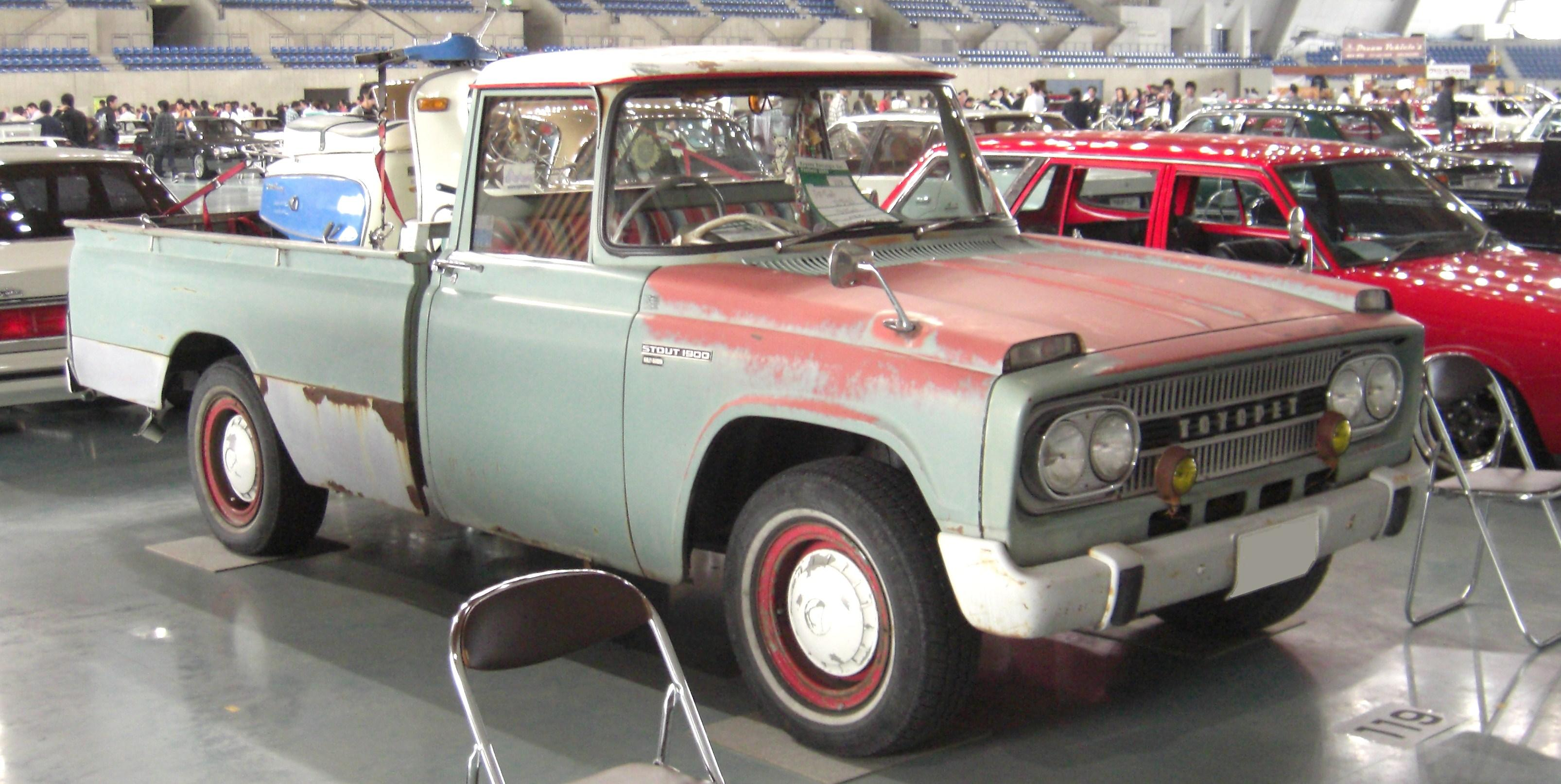 Toyopet Stout 1900 (RK100)